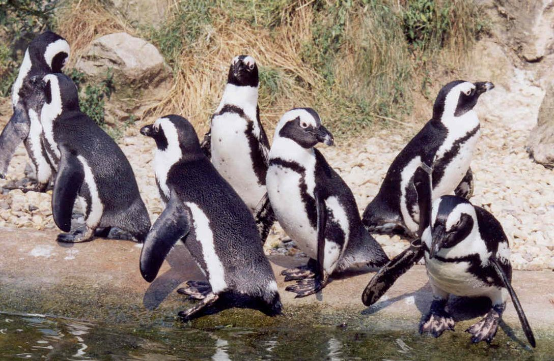 Pengiuns at Burger's Zoo (The Netherlands)